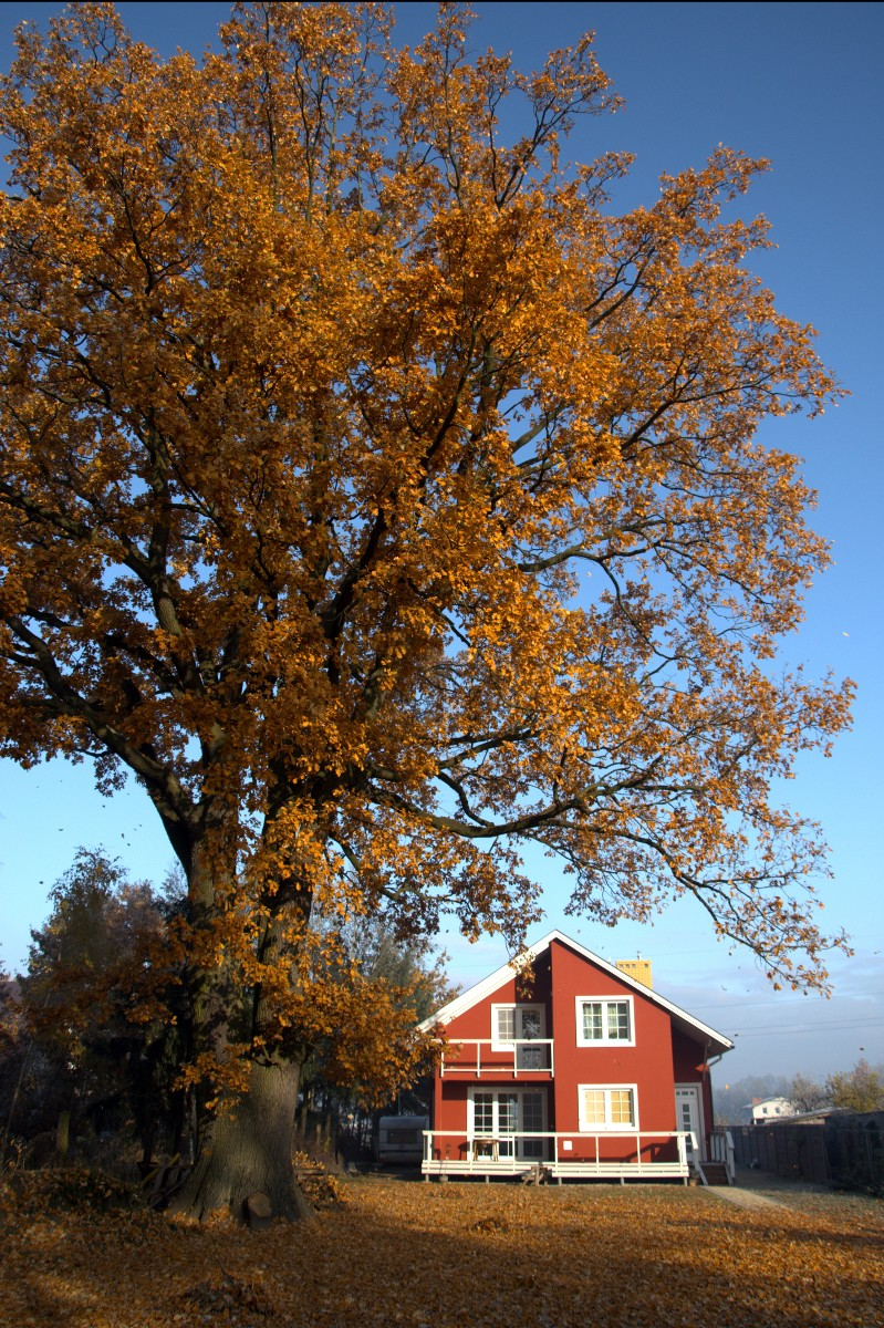 Pedunculate oak (lat. quercus robur) in Cisie, Dworcowa 4 street, Poland